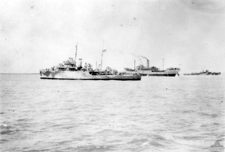 Three ships in Darwin Harbour just prior to the first Japanese raid on 19 February 1942. Identified from left: The Sloop, HMAS Swan; the transport ship, SS Mauna Loa, which was sunk during the Japanese air raid; the Sloop, HMAS Warrego. Both Sloops survived the war and are seen here camouflaged.